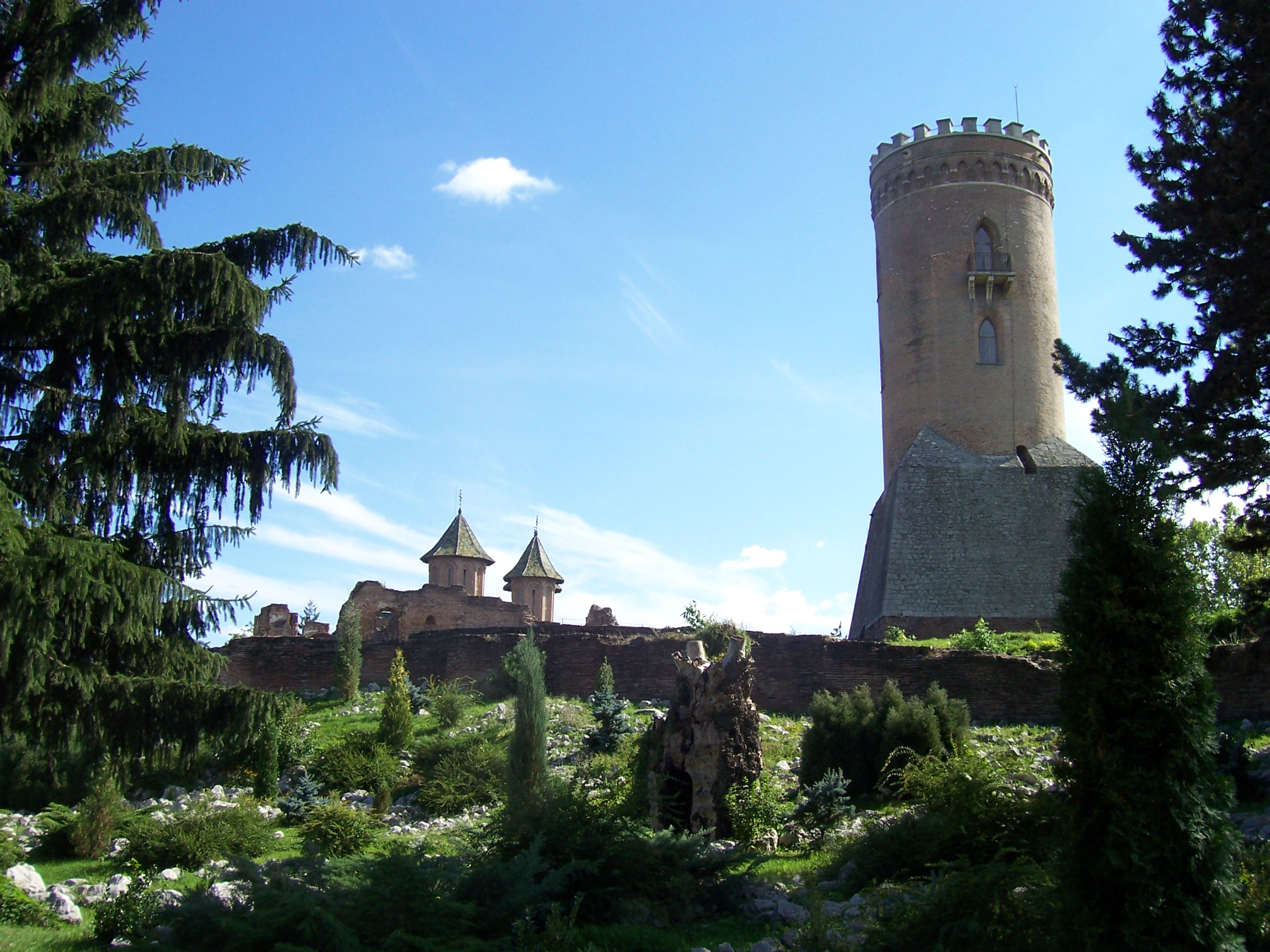 CHINDIA PARK 03